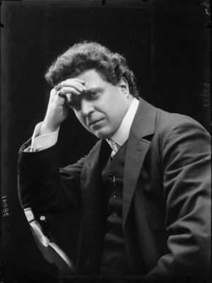 Pietro Mascagni